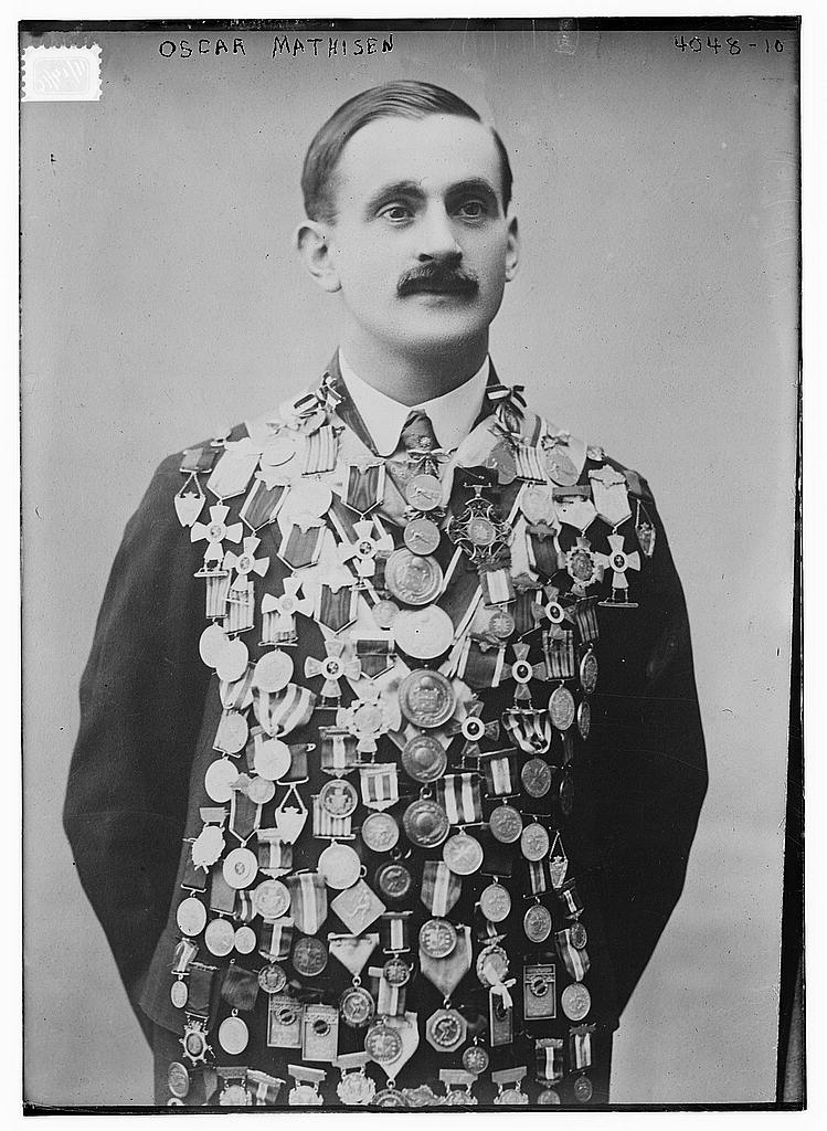 Oscar Mathisen in 1915